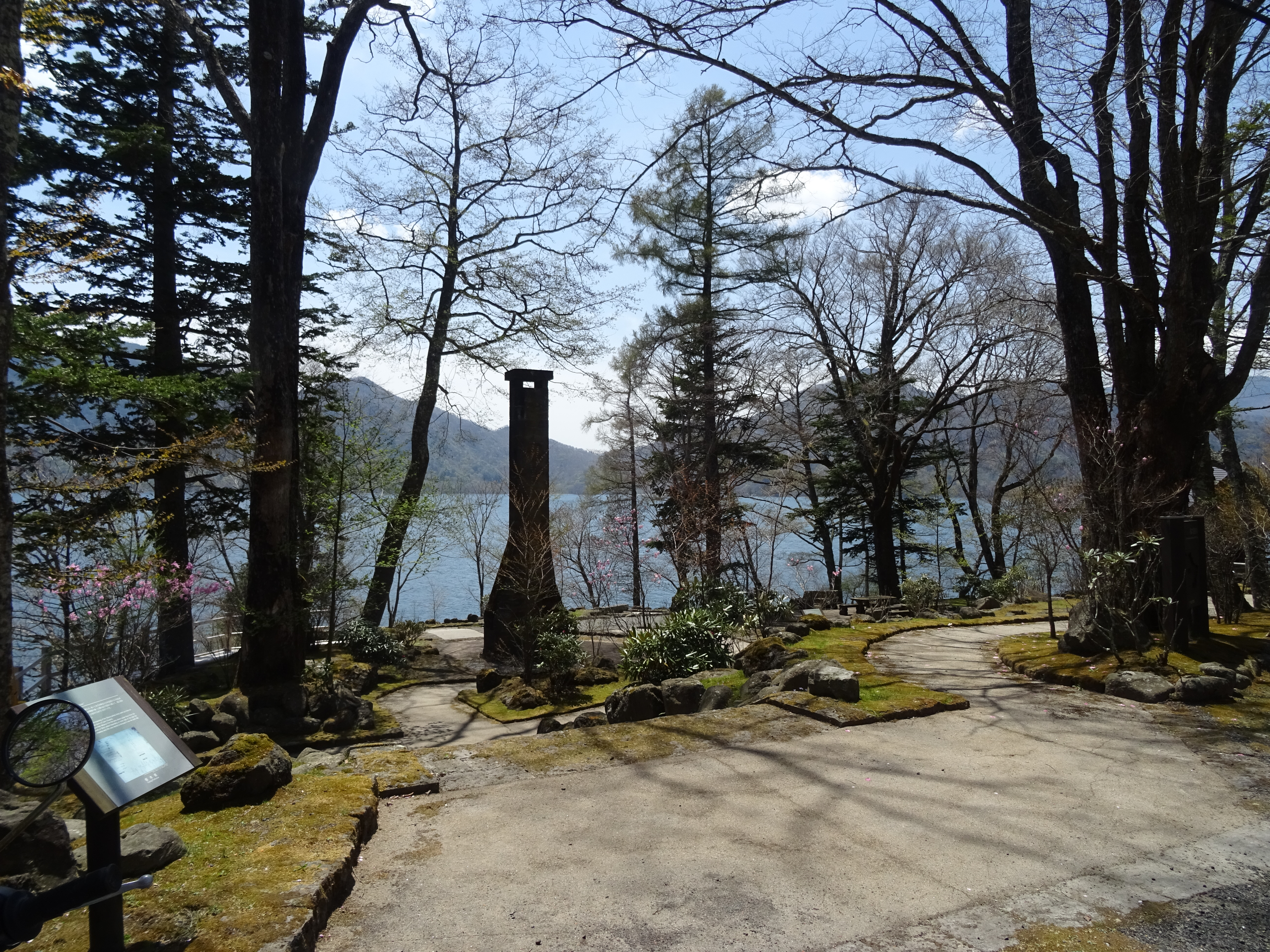 Japan: the Nishi rokuban garden near lake Chūzenji, in Nikkō (Tochigi prefecture).